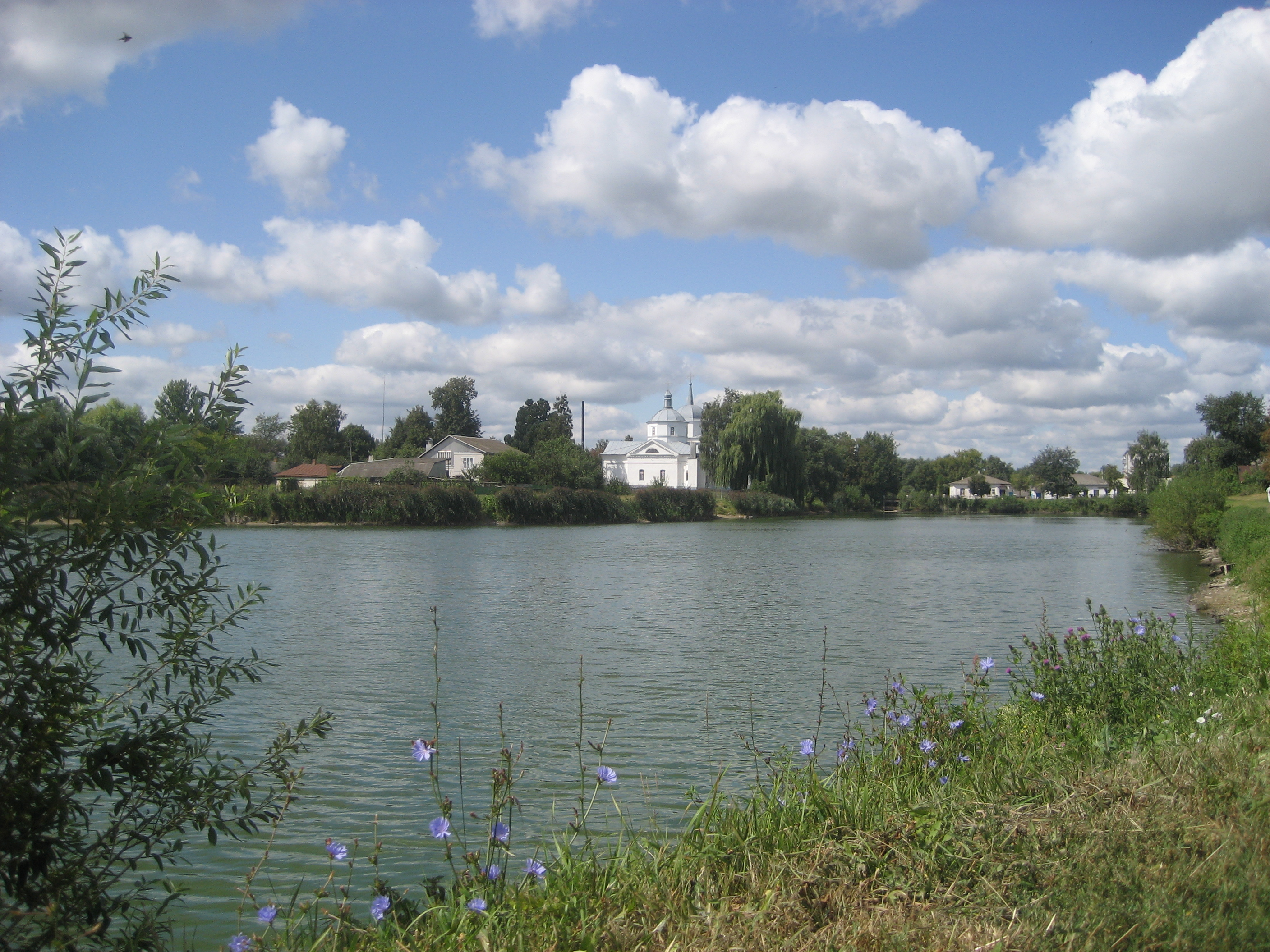 Ichnia. Pound at Ichenka river